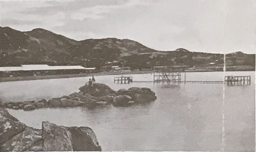 Songdo Resort in 1937.